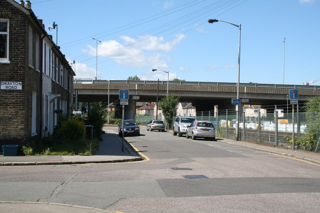 Ruskin Road, Croydon Looking southwest from the junction with Drayton Road, the Old Town flyover is seen ahead, beyond which there is no through road for motor vehicles.